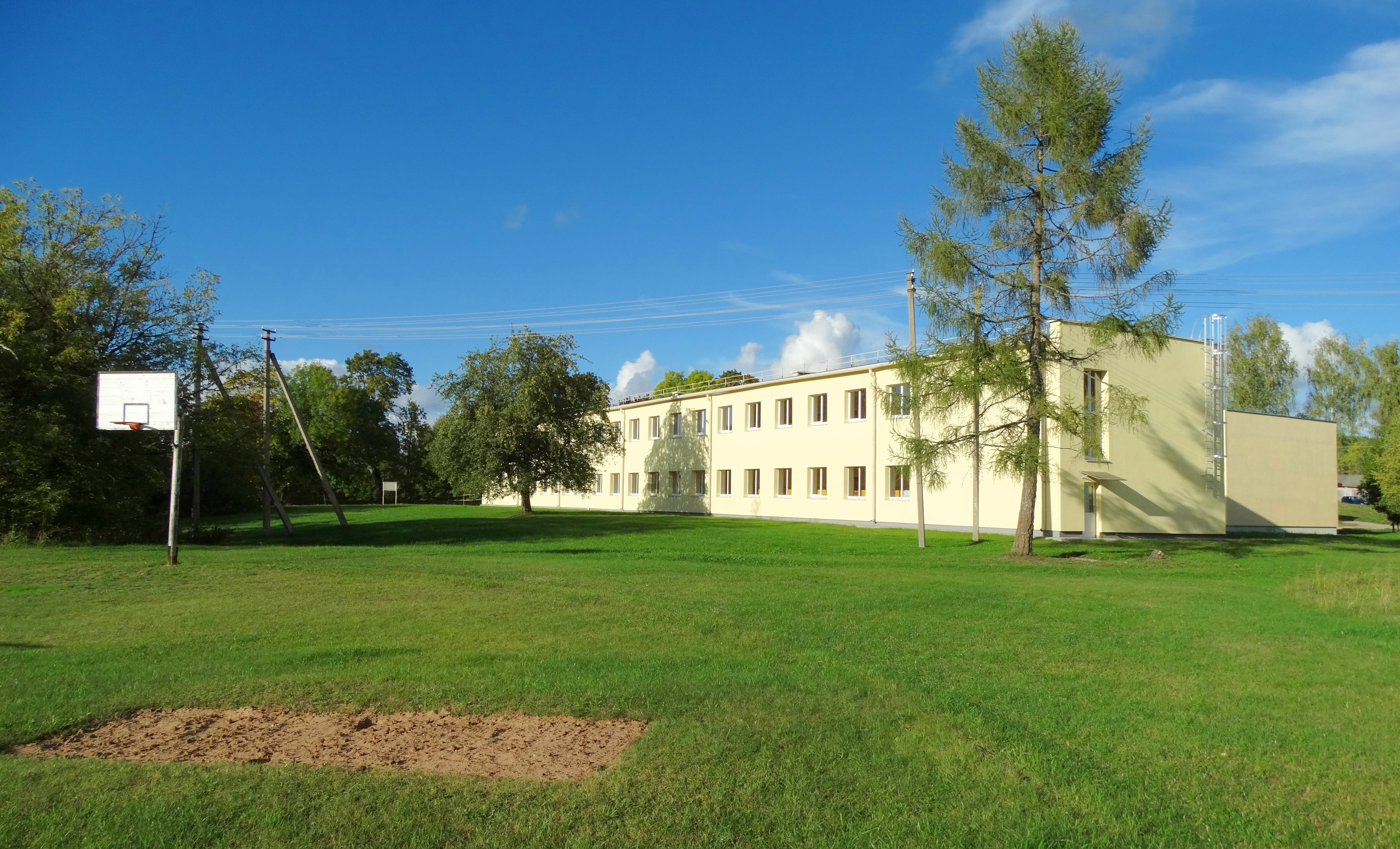 School–multifunction centre, Naujasis Daugėliškis, Ignalina district, Lithuania